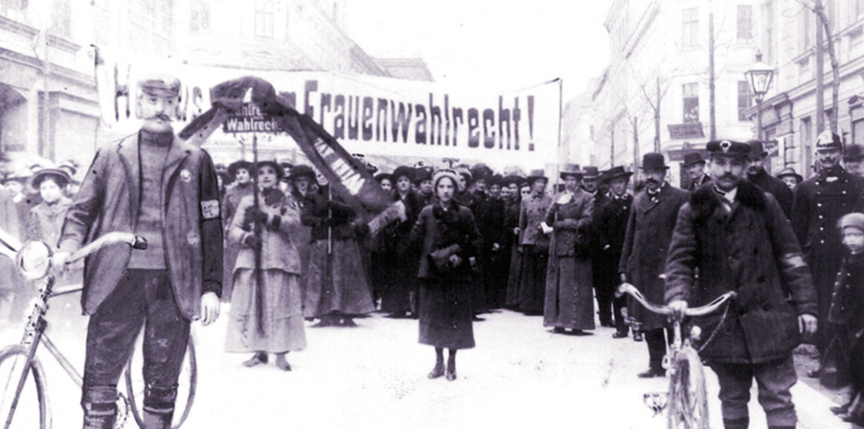 Women's suffrage demonstration in the Ottakring district of Vienna in 1913